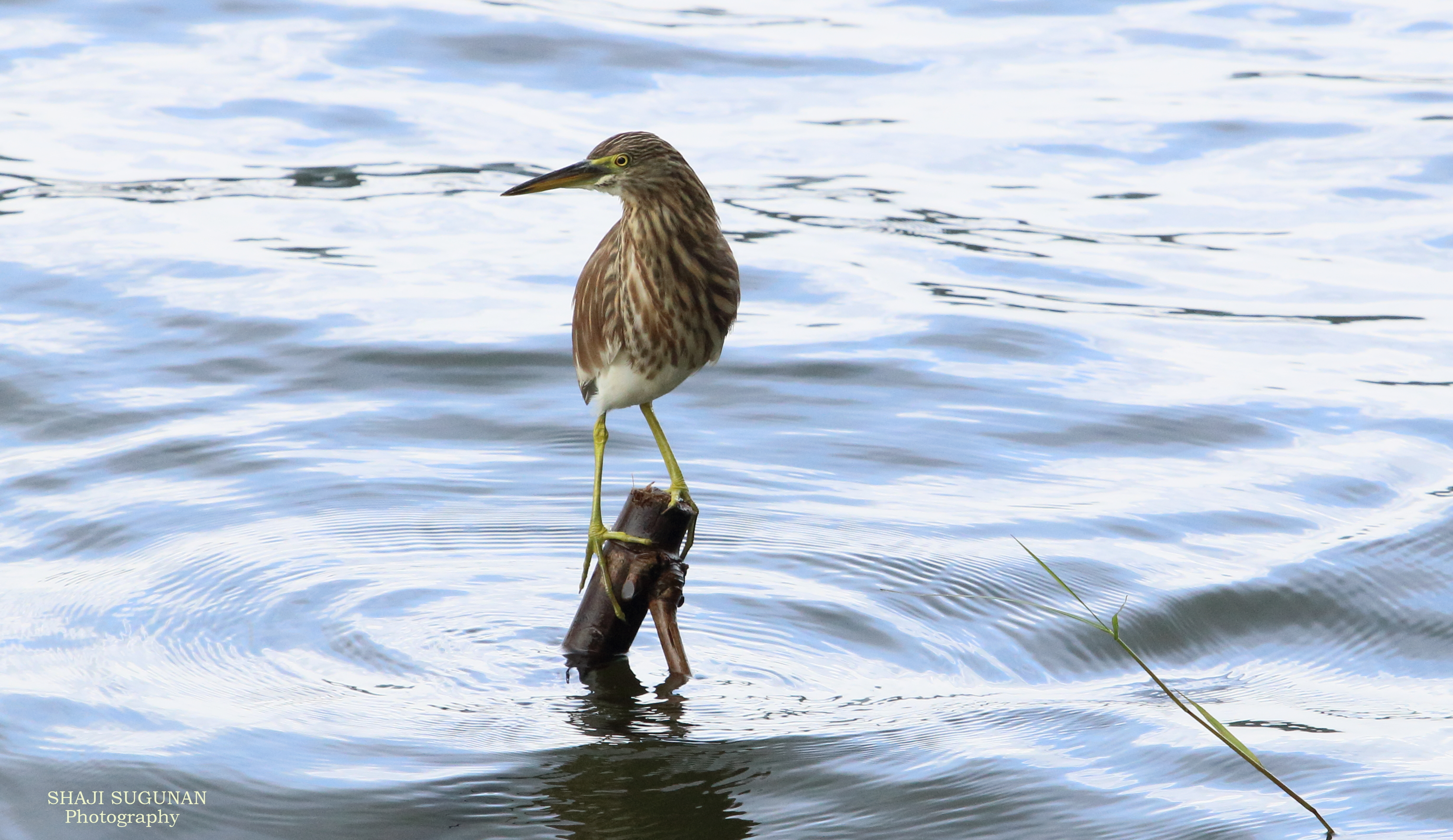 Indian Pond Heron or Paddybird (Ardeola grayii) is a small heron. It is of Old World origins, breeding in southern Iran and east to India, Burma, Bangladesh and Sri Lanka. They are widespread and common but can be easily missed when they stalk prey at the edge of small water-bodies or even when they roost close to human habitations